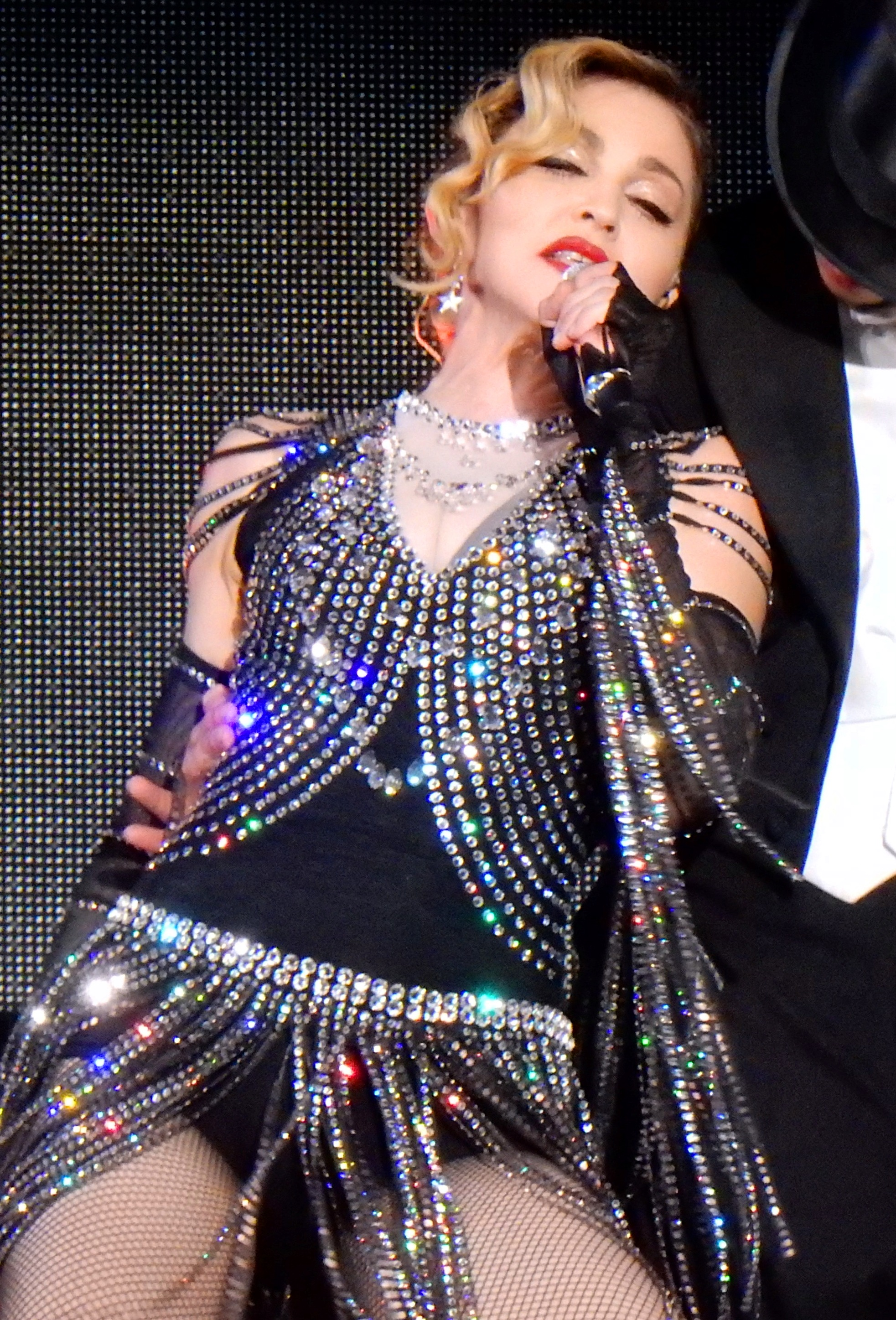 Madonna performing on the Rebel Heart Tour